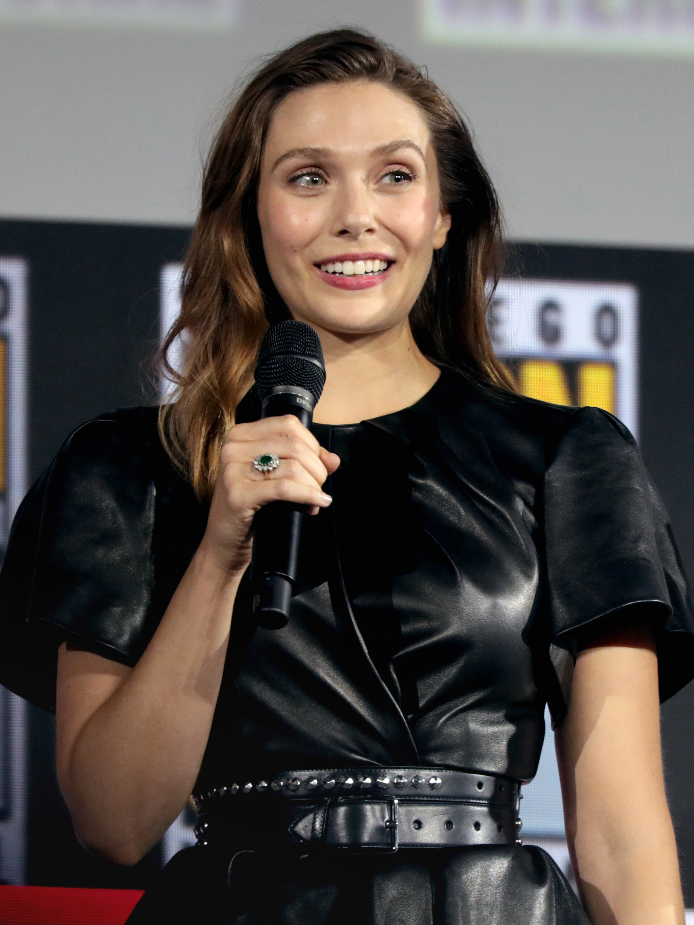 Elizabeth Olsen speaking at the 2019 San Diego Comic-Con International in San Diego, California.